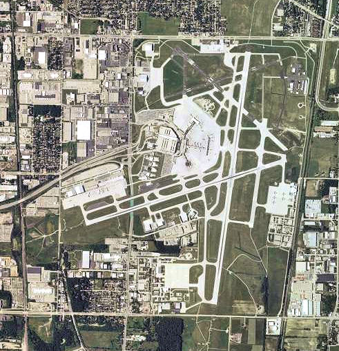 USGS digital orthophoto of General Mitchell International Airport in Wisconsin